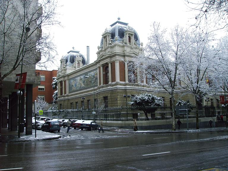 View of the M1 building of the School of Mines of Madrid (Spain), at 21 Calle de Ríos Rosas (street). It was projected in 1884 by Ricardo Velázquez Bosco and built between 1886 and 1893.